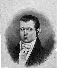 Zenas Crane, founder of the papermaker Crane and Company.